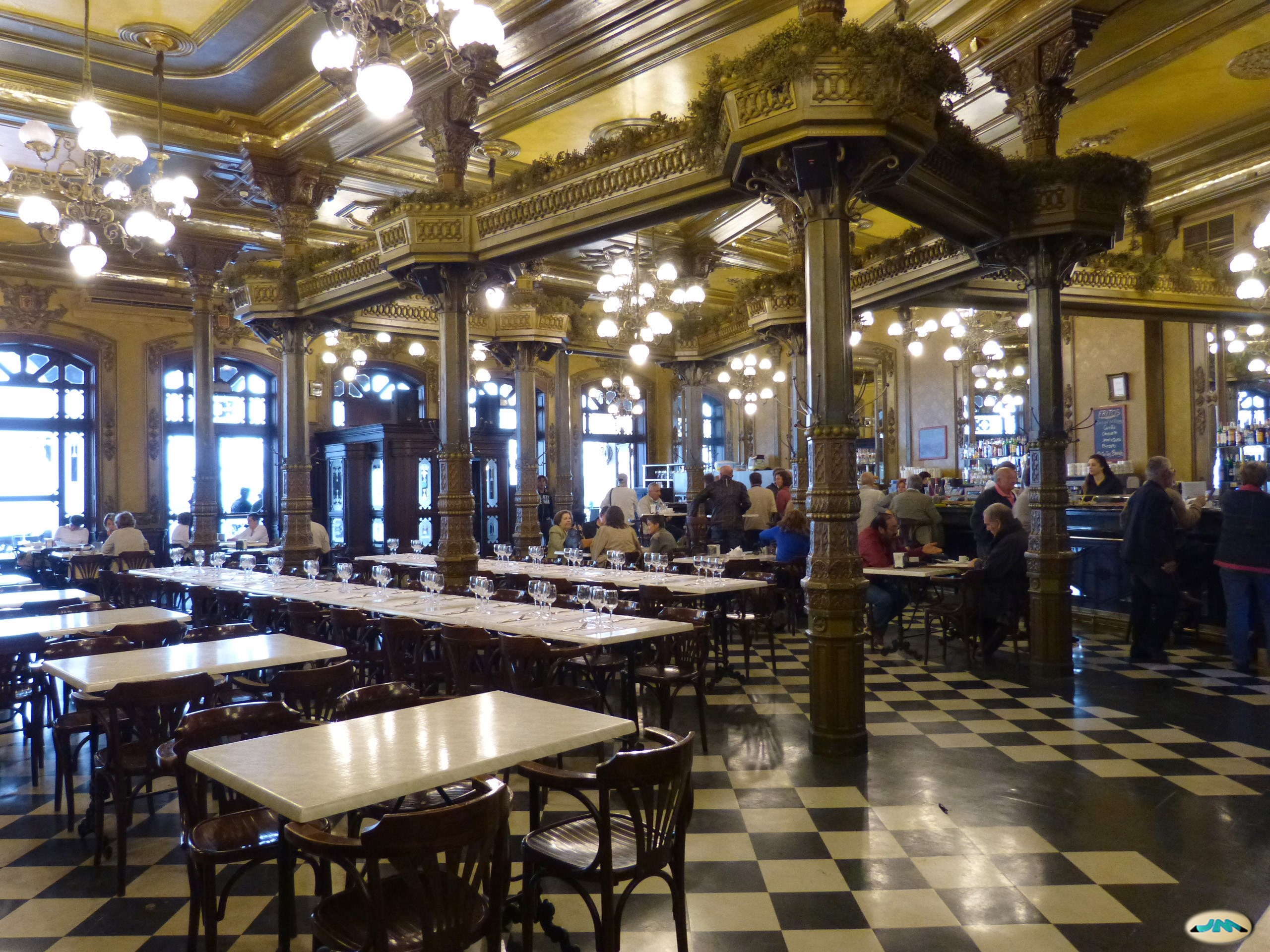 Café Iruña, Iruñea-Pamplona, Navarre, Basque Country